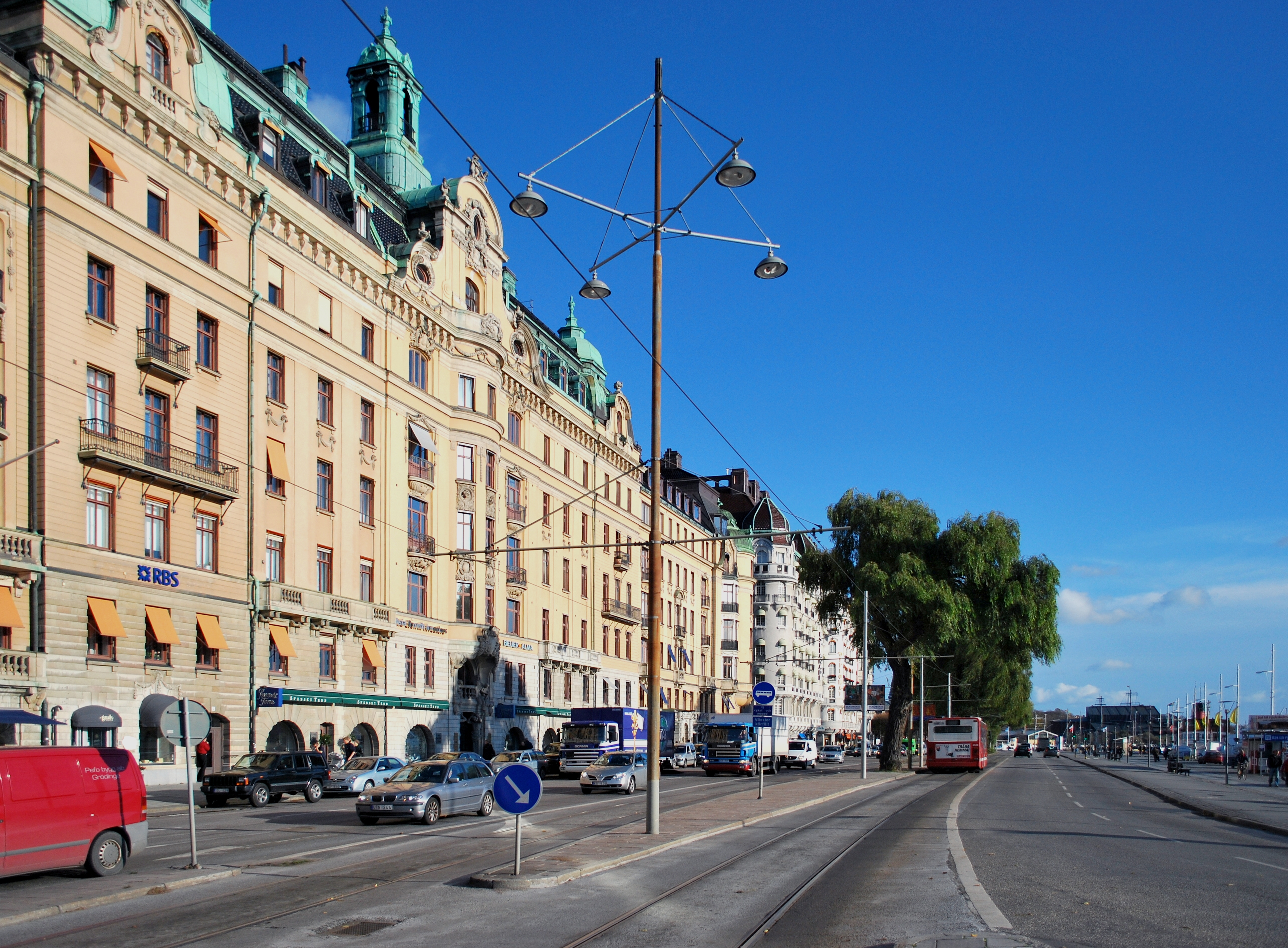 Strandvägen, Östermalm, Stockholm, seen from Nybroplan